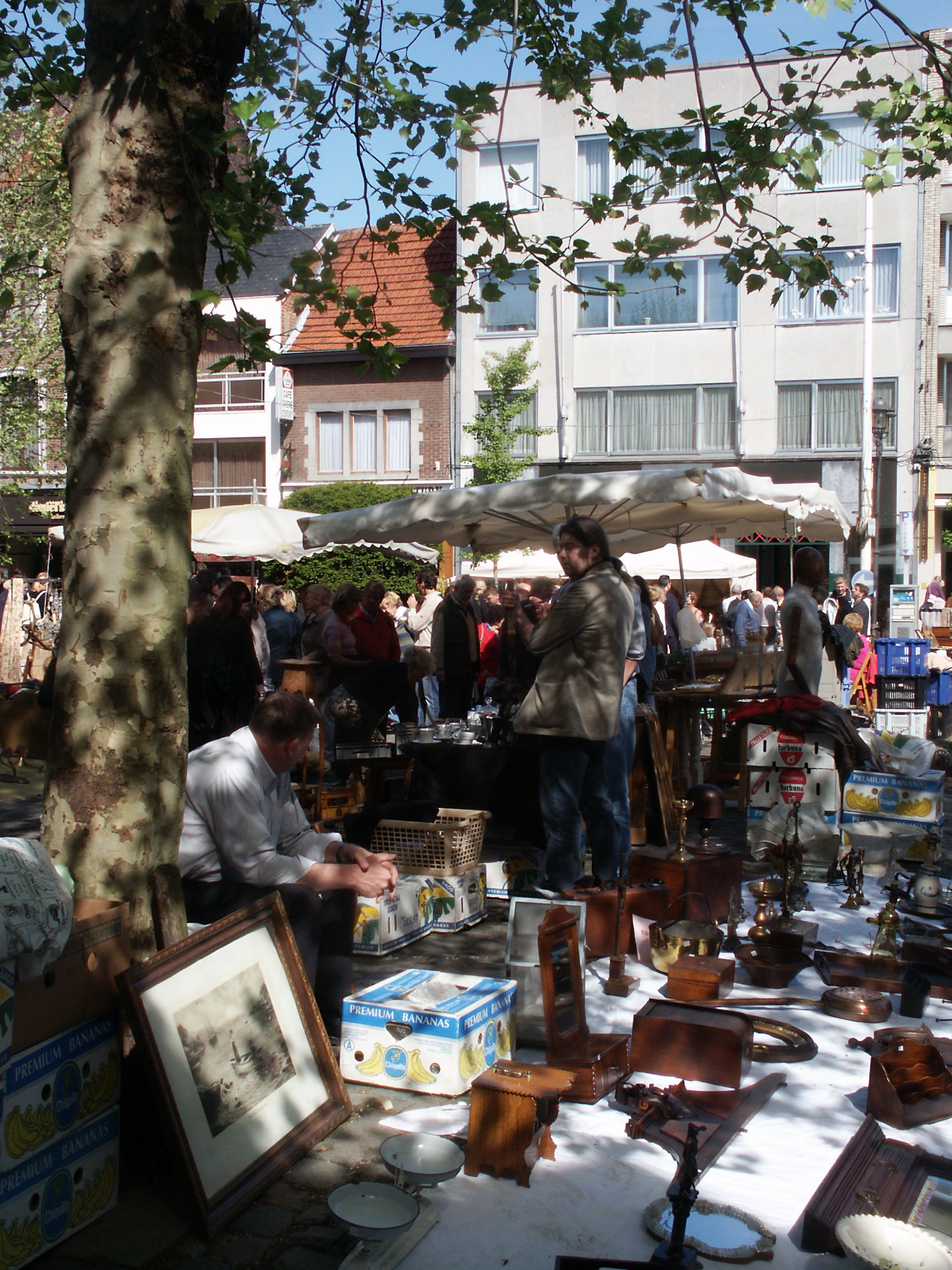 Antiques market at Tongeren Koemarkt.